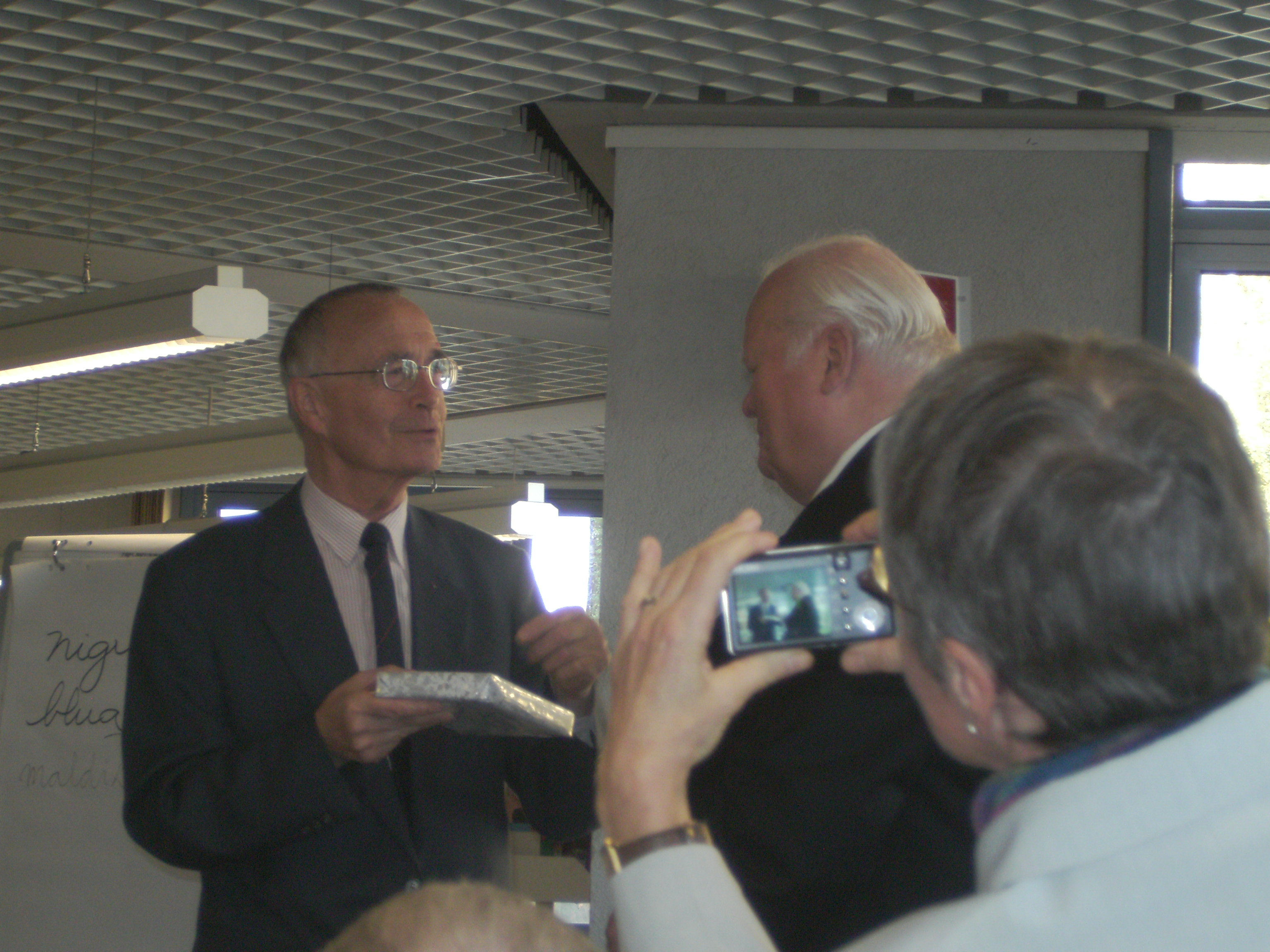 Esperanto Cultural Award of Aalen (19 okt 2008) to Internacia Esperanto-Instituto. Its president Ed Borsboom after thanking delivers the Institutes latest publication to Karl Heinz Schaeffer, executive of German Esperanto-library (to the right).